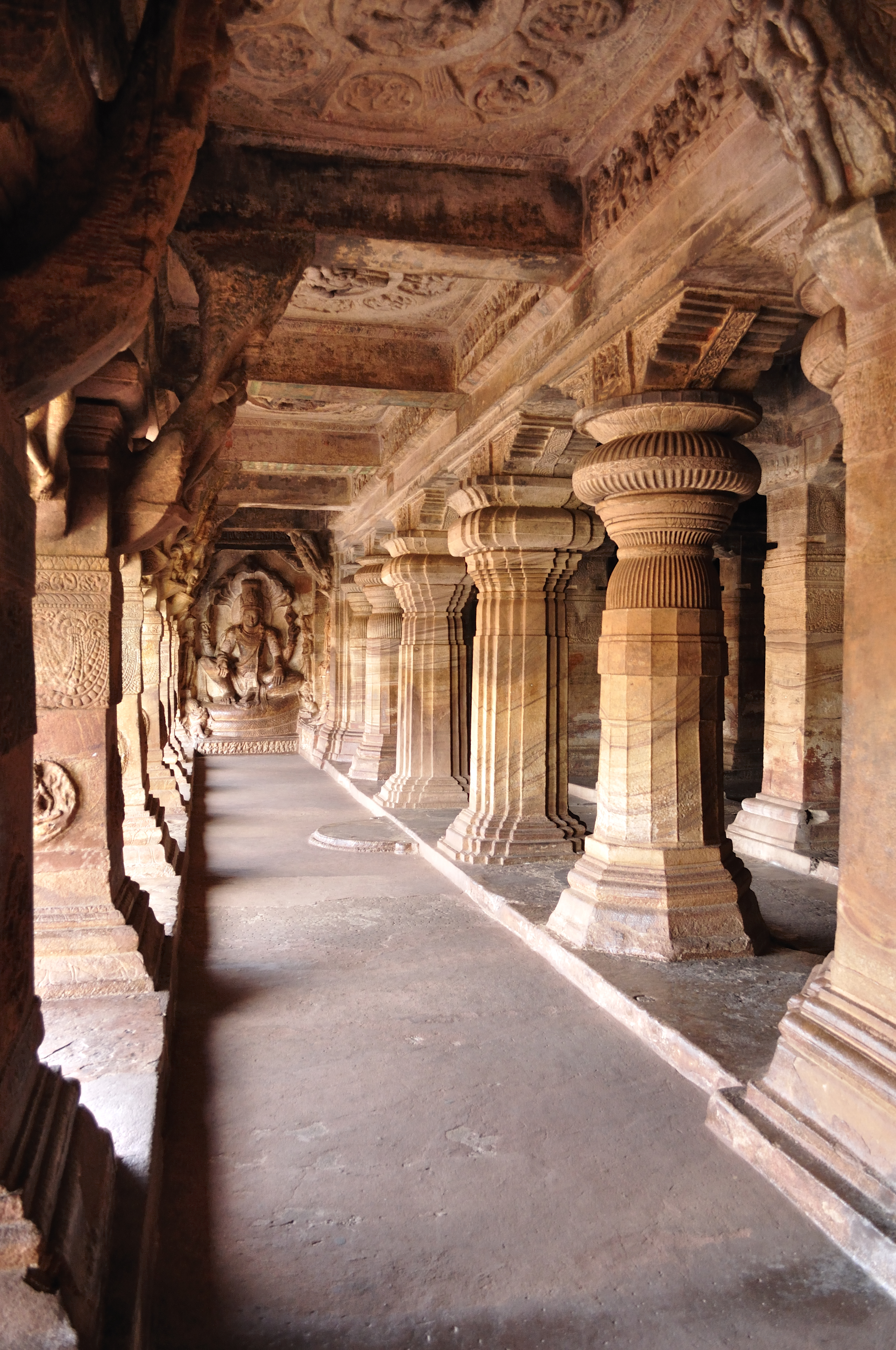 Cave 3 is the largest and the most well-maintained cave out of the four rock-cut caves in Badami, Karnataka, India. This cave is dedicated to God Vishnu. This is a view of the "Verandah". The photograph attempts to depict the wonderful rock cut architecture of this cave. Because of low level of ambient light inside the cave and Archaeological Survey of India's (ASI) rule of "non usage of tripods inside protected monuments", it's somewhat difficult to shoot hand-held. You can find more information about the cave temples on English Wikipedia: Note: This photograph uses Adobe RGB color space. It is recommended that the photograph be viewed in a browser/image viewer that supports non-sRGB color space. Safari and Firefox include non-sRGB color space support by default